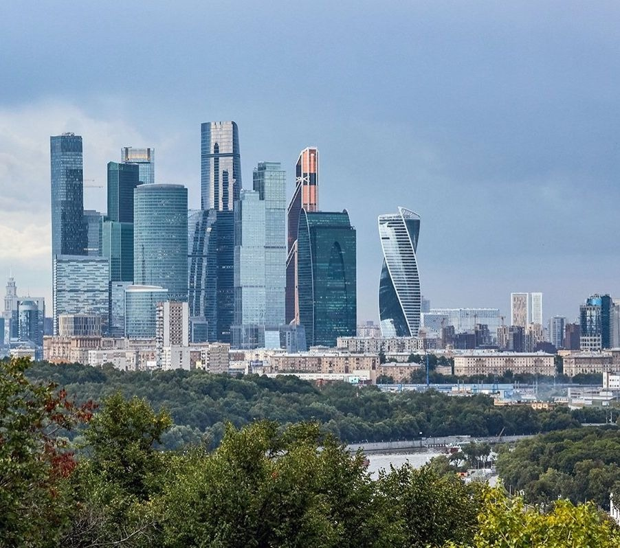 Moscow International Business Center "Moscow-City"